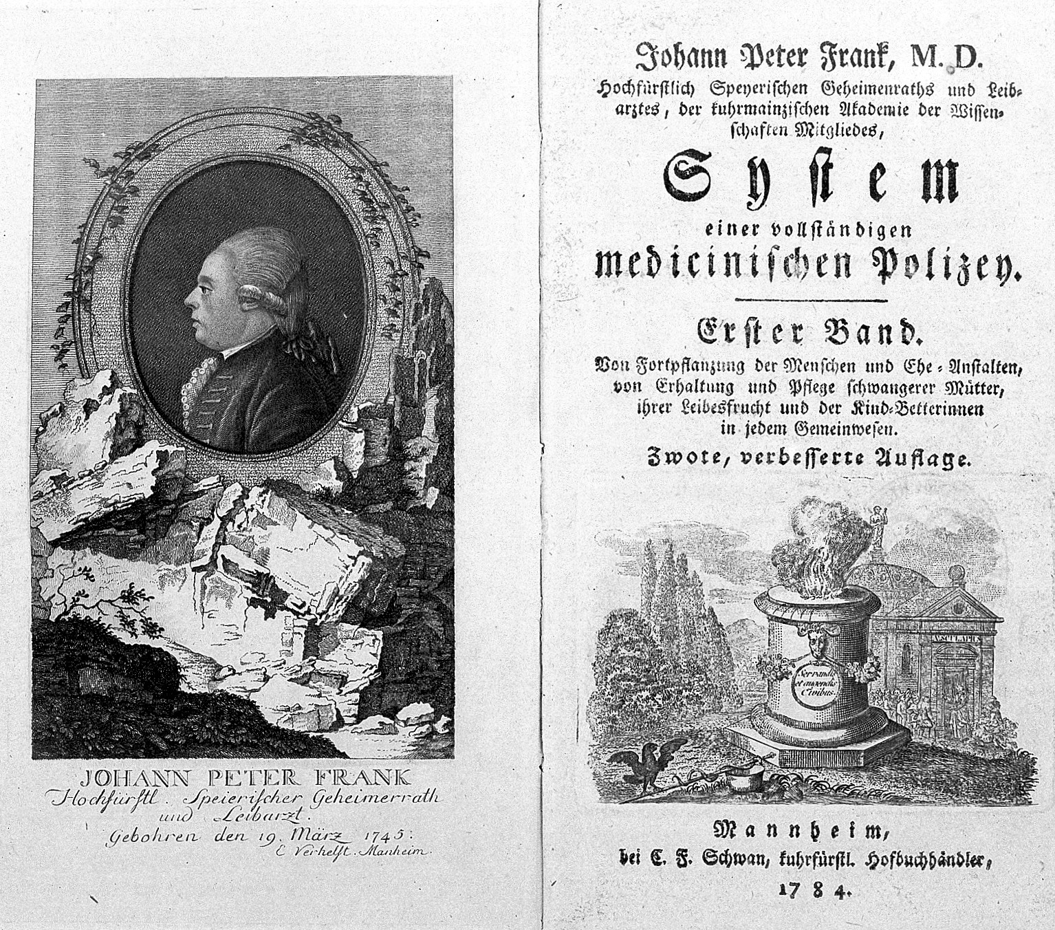 Title page and portrait of Johann Peter Frank Rare Books Keywords: medical policy, 18th century; Johann Peter Frank